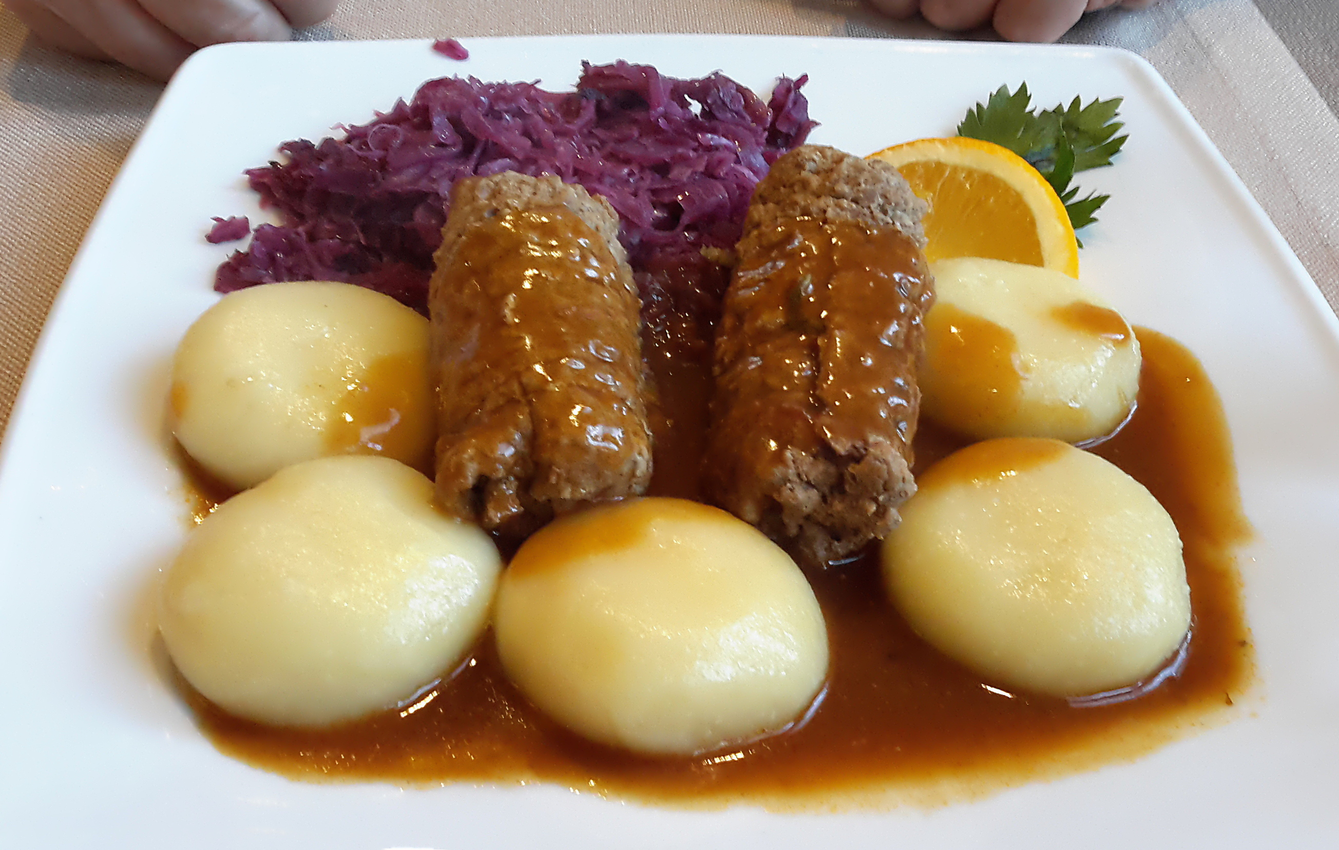 Meat roulades, Silesian dumplings, and stewed red cabbage